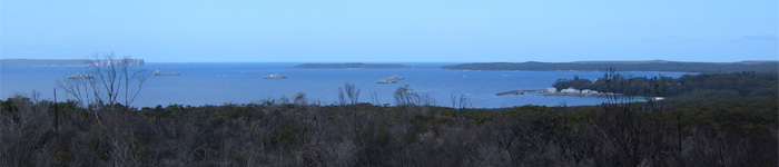 The Royal Australian Navy in Jervis Bay: 10 ships (inc one submarine) off HMAS Creswell on Sunday en:5 February en:2006. Left to right: HMAS Success (AOR-304), HMAS Westralia (AO 195), HMAS Manoora (LPA-52), HMAS Stuart (FFH 153), HMAS Warramunga (FFH 152), HMAS Hawkesbury (M-83), HMAS Yarra,(Huon class minehunter), HMAS Townsville (P 205), HMAS Dechaineux (SSG 73). Land in background (L-R): Point Perpendictlar, Bowen Island, Governor's Head; point at right: HMAS Creswell and naval boat harbour